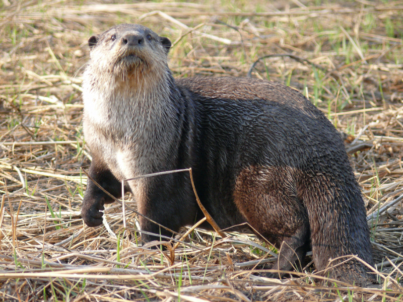 A 4 year old, male African clawless otter, on the bank of the Kavango river, Namibia